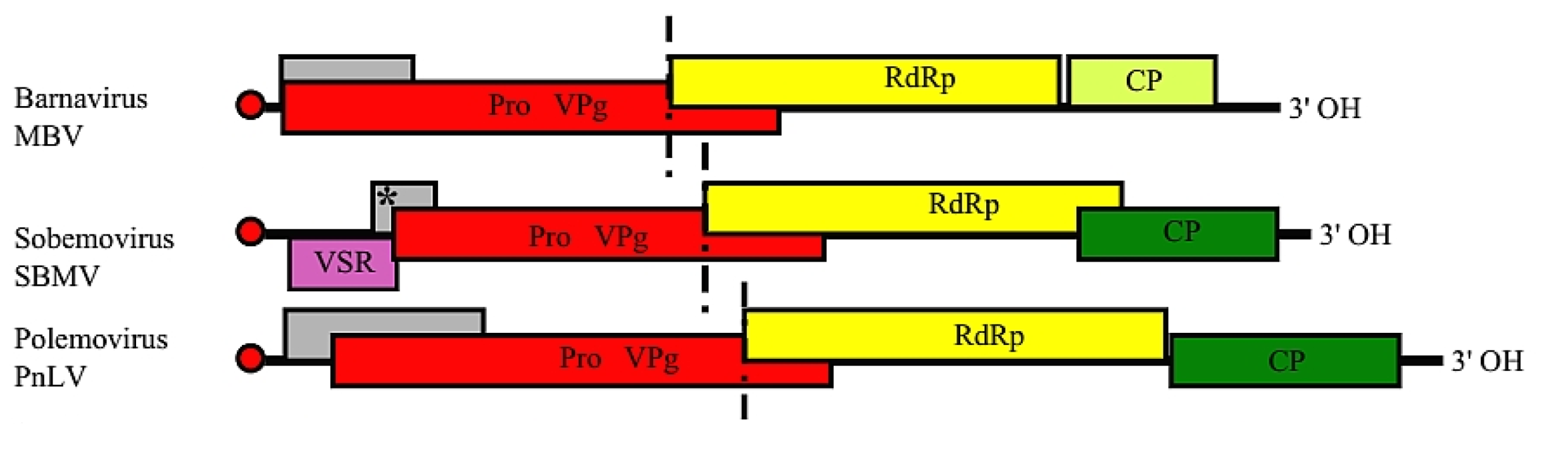 Genome annotations of the type species of phylogenetically related families and genera. RdRp genes are shown in the upper frame (frame 0); middle frame represents +1 frame and lower frame represents +2 frame. Non-canonical AUG start codon is marked with asterisk (*). –1 ribosomal frameshifting is marked by long vertical dashed line. Read-through codon is shown by short vertical dashed line. Boxes with dashed borders: unique for the type species. Different protein functions are displayed with different colors and the homology is indicated by different tones. Color code: bright yellow—picornavirus-like RdRp; soft yellows and orange—flavivirus-like RdRp (three subgroups within Tombusviridae family are shown); red—serine protease; green—CP (CPs of Tombusviridae are presented in two different tones to distinguish CPs with protruding domains (shown in olive green) and without it (shown in dark green)); blue—movement protein (MP); lilac or purple—viral RNAi suppressor (VSR); brown—replication-associated protein (Rap); grey—no function found. VPg is depicted as a red dot at the 5′ end of the genomic RNA. Virus name abbreviations: MBV—Mushroom bacilliform virus (NC_001633); SBMV—Southern bean mosaic virus (NC_004060); PnLV—Poinsettia latent virus (NC_011543)